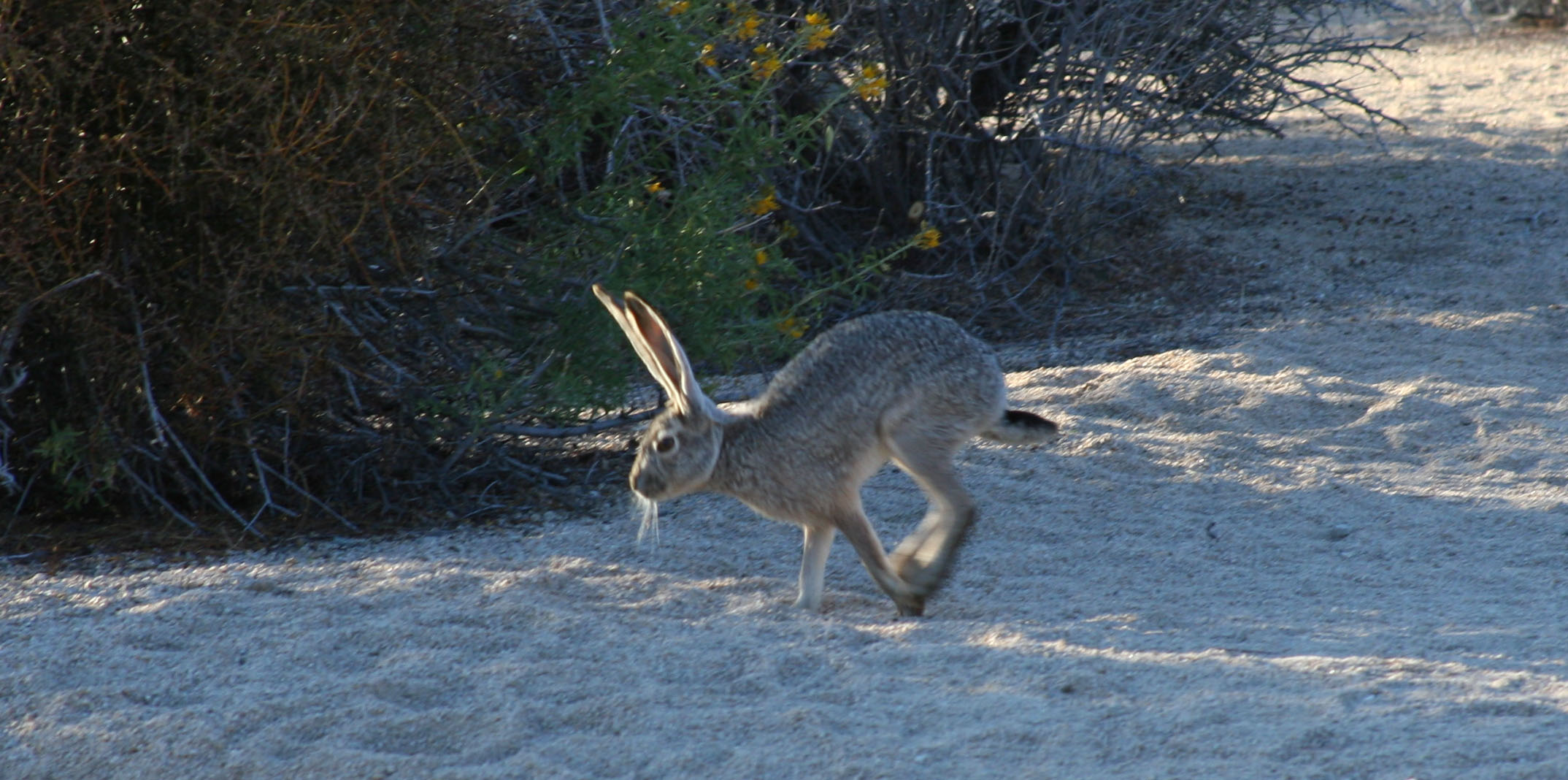 Photo of a black-tailed jackrabbit